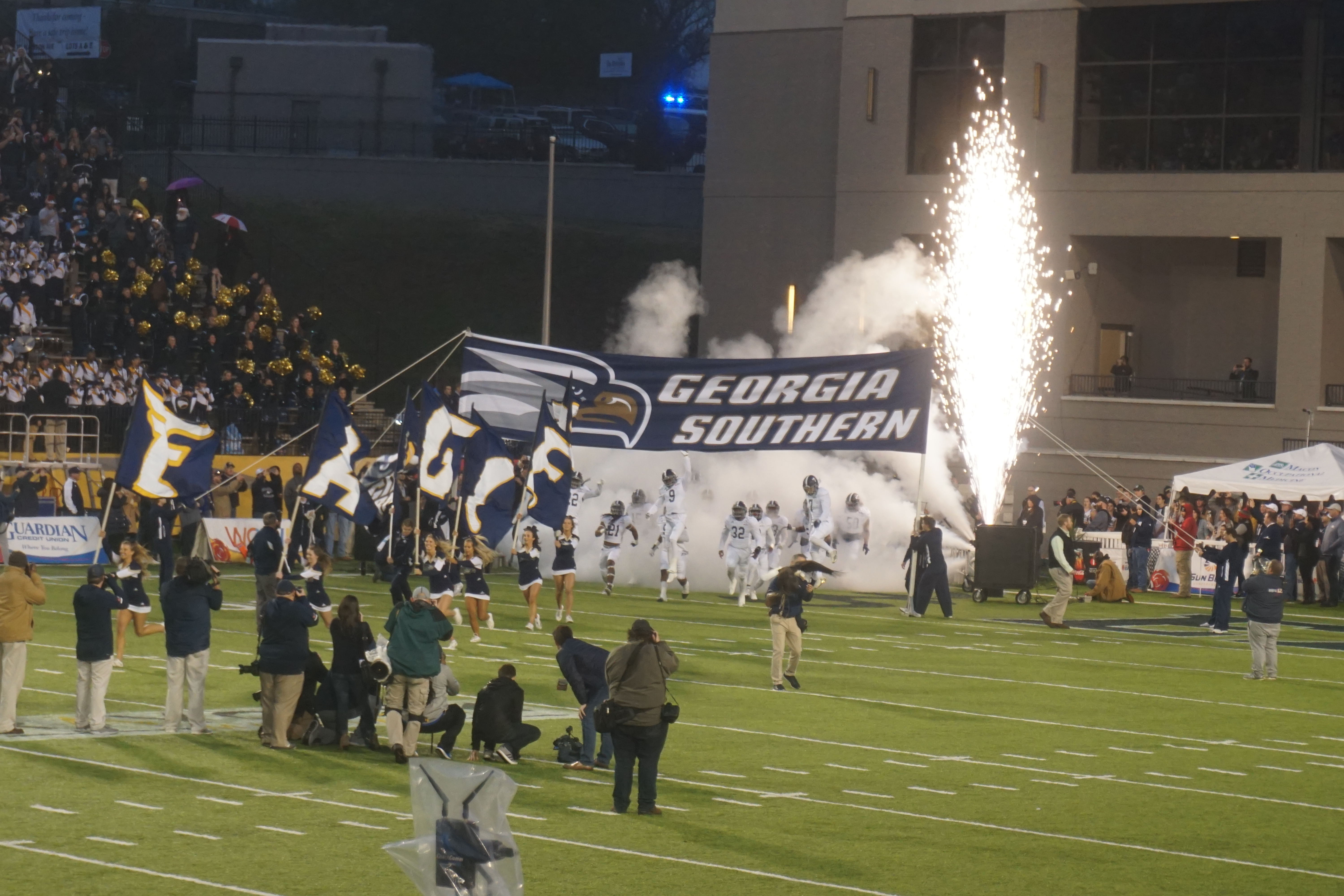 Georgia Southern entering the field before the 2018 Camellia Bowl (Georgia Southern Eagles vs. Eastern Michigan Eagles) at the Cramton Bowl in Montgomery, Alabama (United States). Georgia Southern won 23–21.